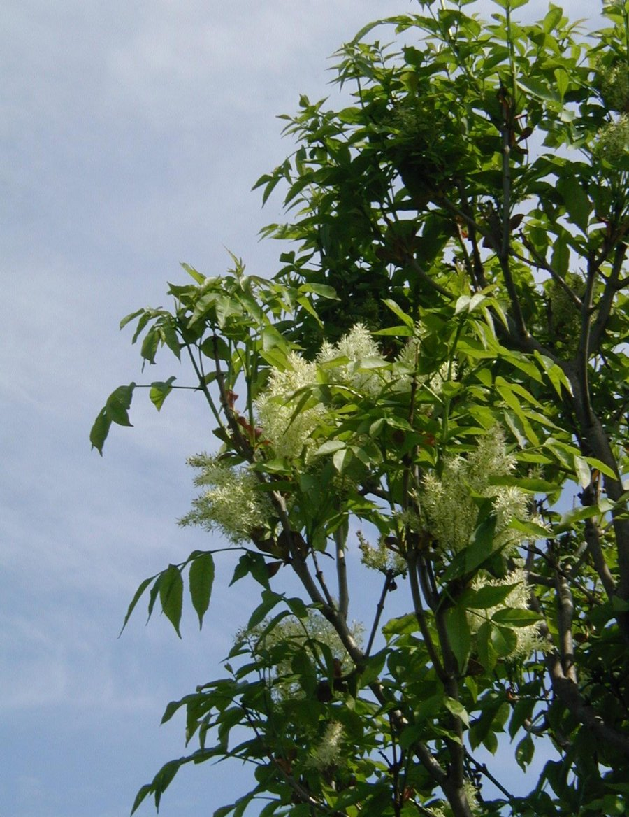 Fraxinus ornus: Flowering tree in Denmark. Photo: Sten Porse